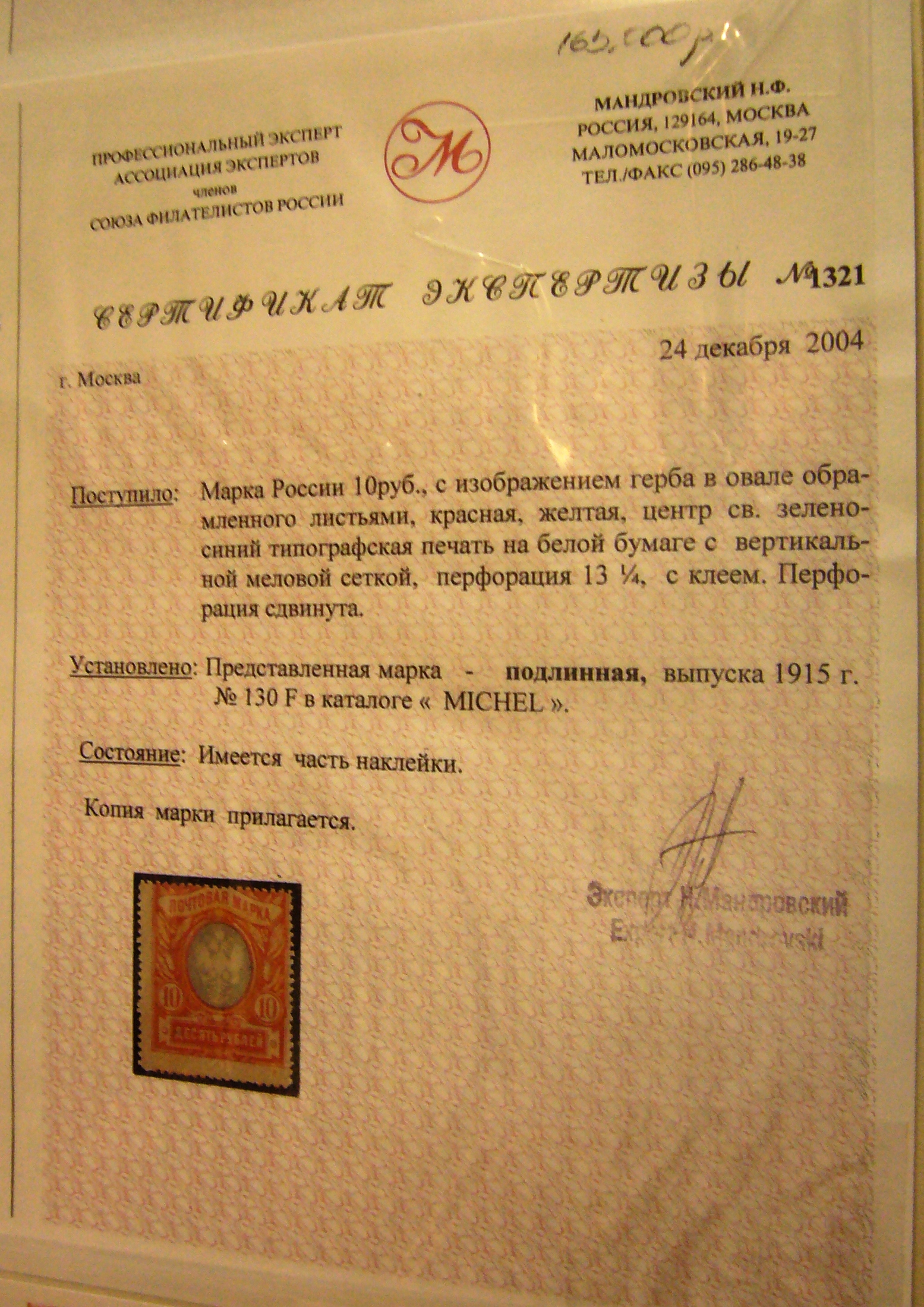 A certificate of stamp expert review issued by a professional expert, member of Experts Association of Russian Philatelists' Union, in respect of 10 ruble Russian stamp of 1915, No. 130F (Michel).